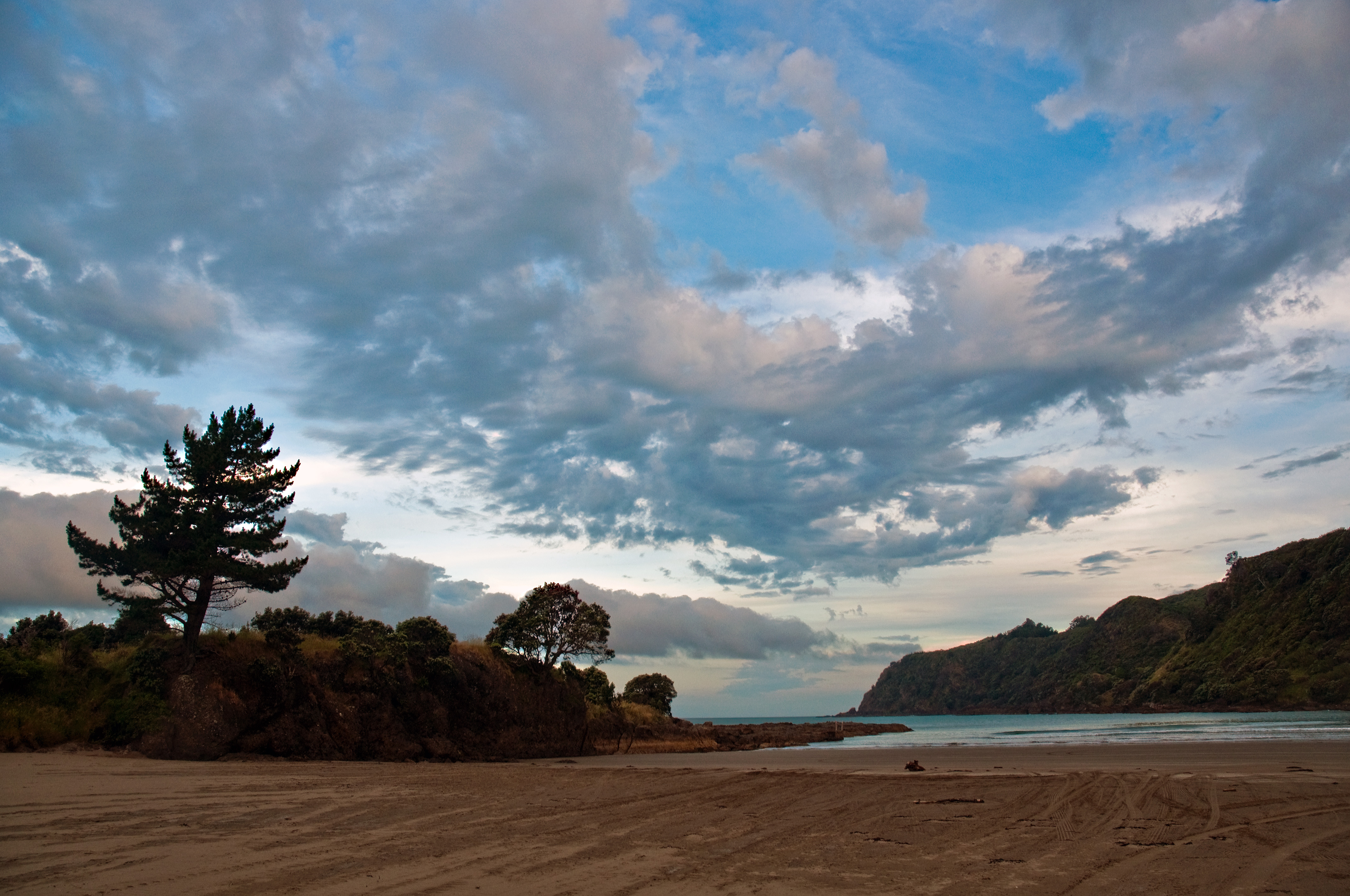 Hicks Bay, East Coast, New Zealand, 13th. Dec. 2010